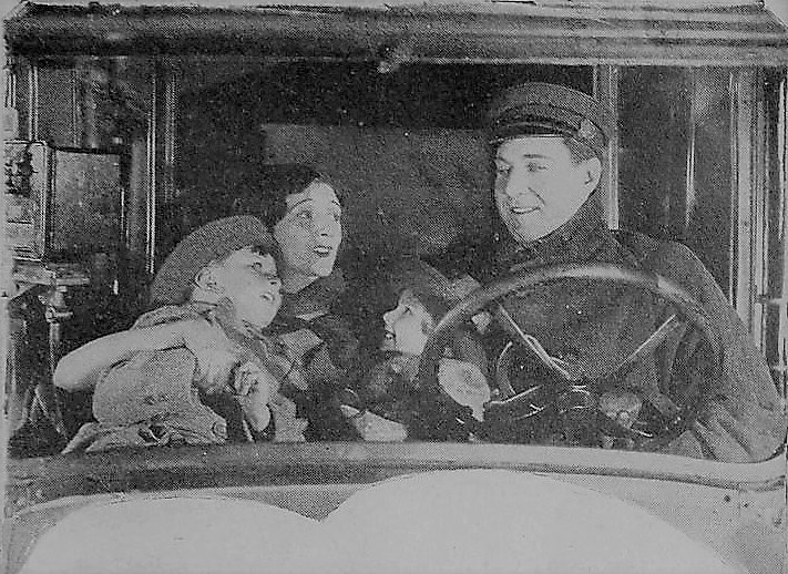 Betty Francisco and David Butler in Poor Men's Wives (1923).